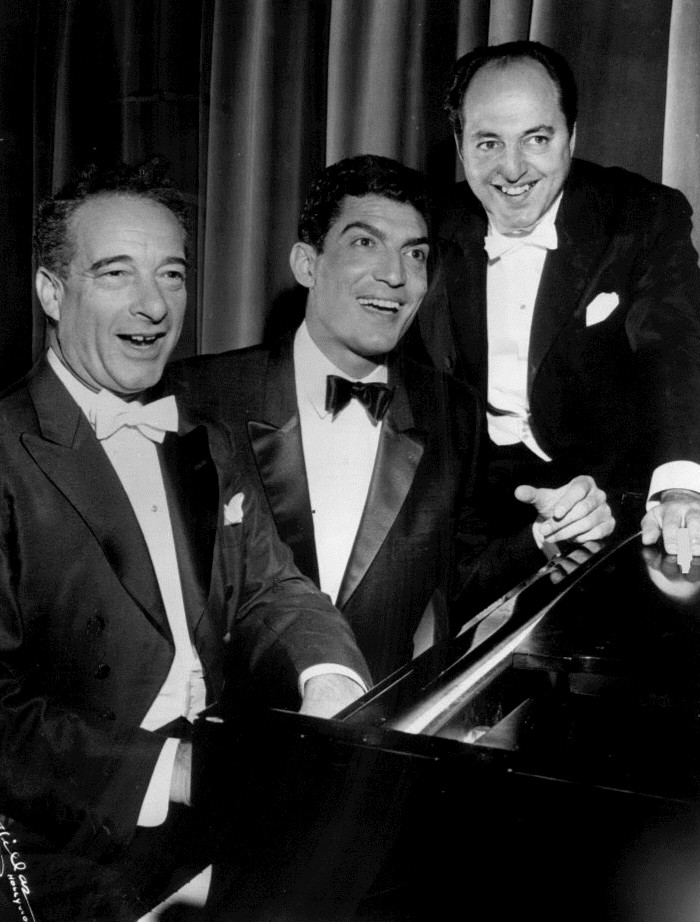 Photo of Victor Borge, Sergio Franchi and Leonid Hambro from the ABC Television special Victor Borge at Carnegie Hall.